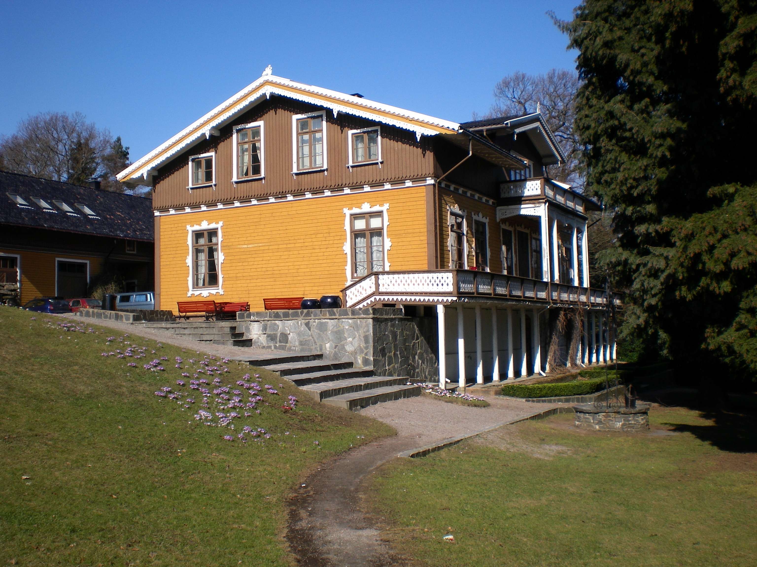 Photo of